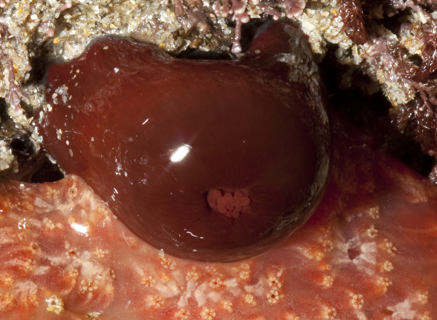 The Beadlet Sea Anemone, Actinia equina (Linnaeus, 1758) photographed near Padstow in South-west England.